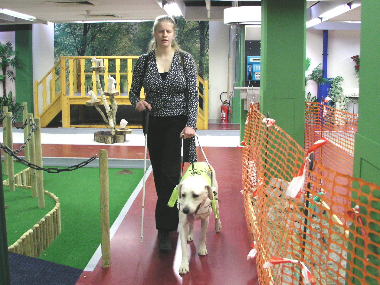 A blind person learns to use a guide dog at the test track of the Brailleliga